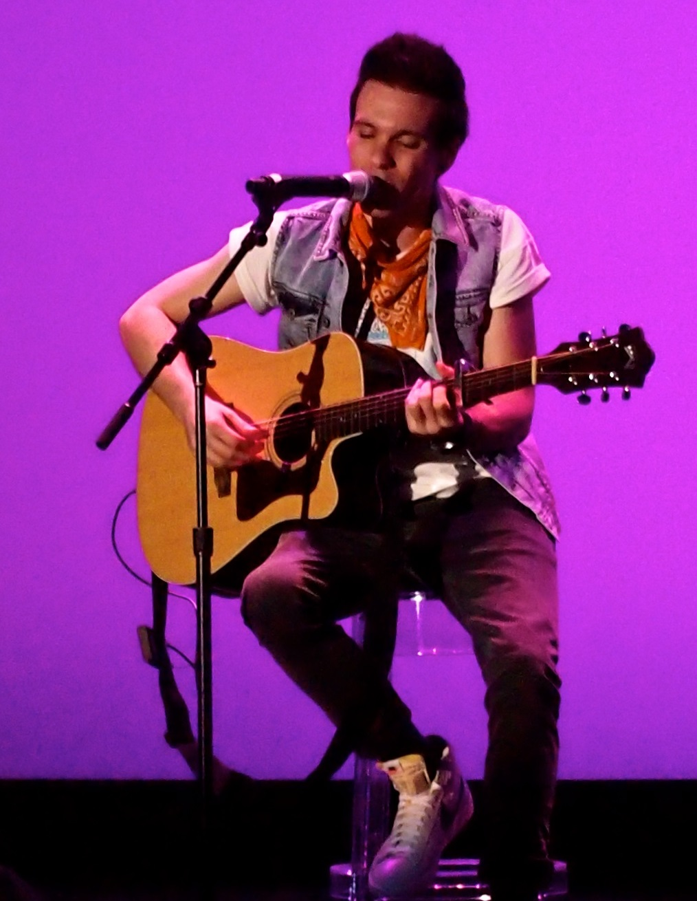 Matthew Koma permons